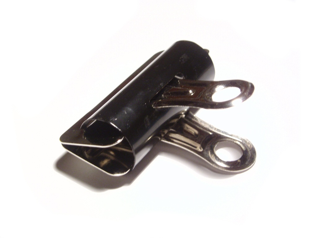 By Richard Wheeler (Zephyris) 2007.